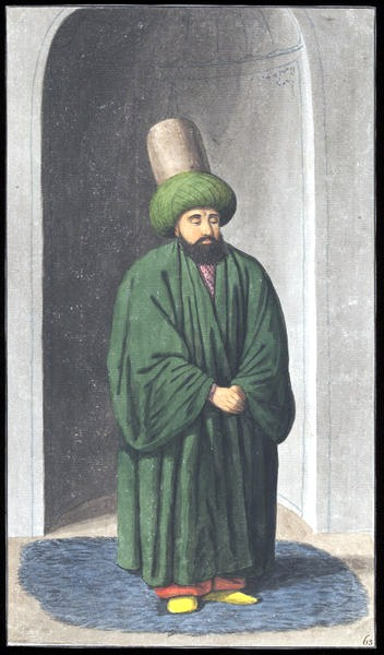 Sheykh of the Rufai Dervishes